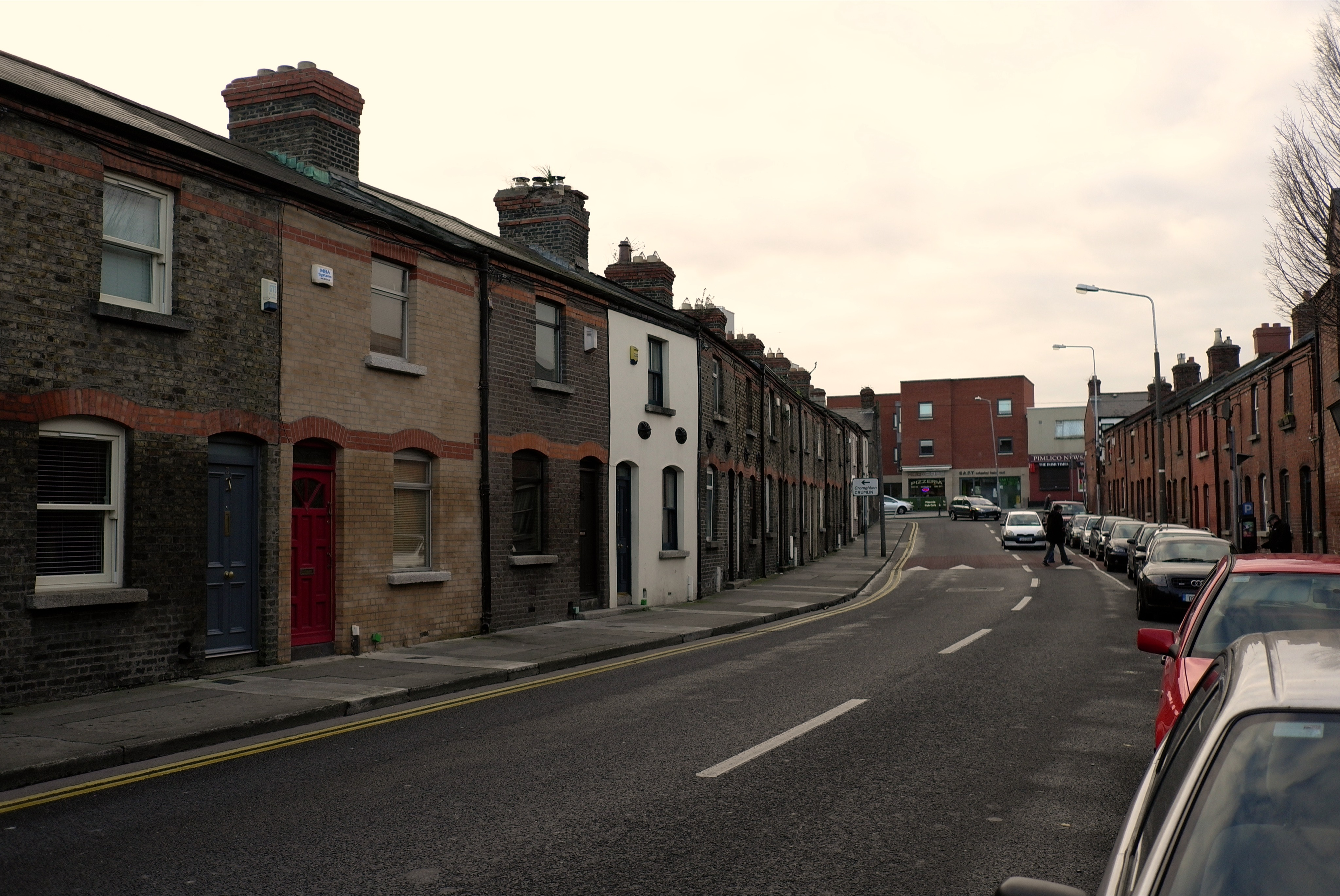 Watkins Buildings along the Coombe (facing west) in the Liberties of Dublin.